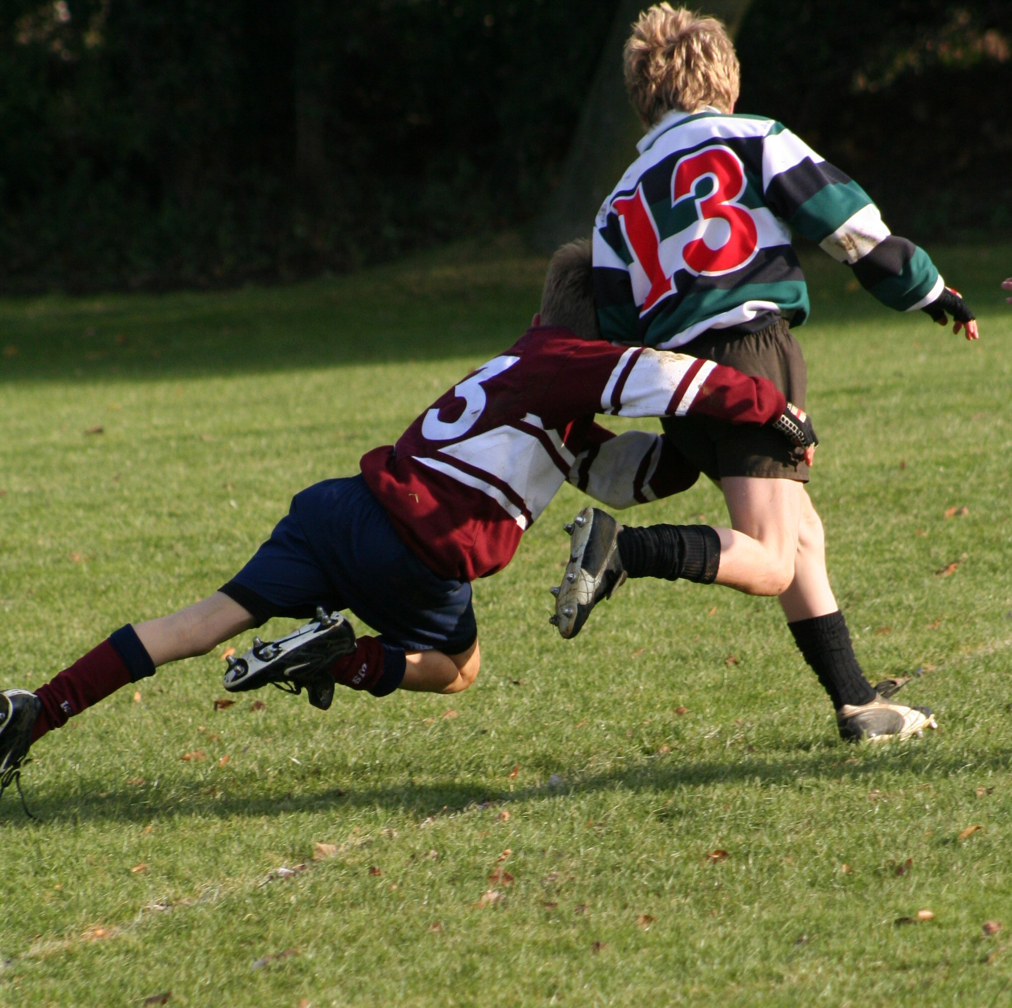 Guy M' (11) playing against Spratton Prep' School in a Rugby Union match 11/2005; picture by R Neil Marshman (c) - see metadata.